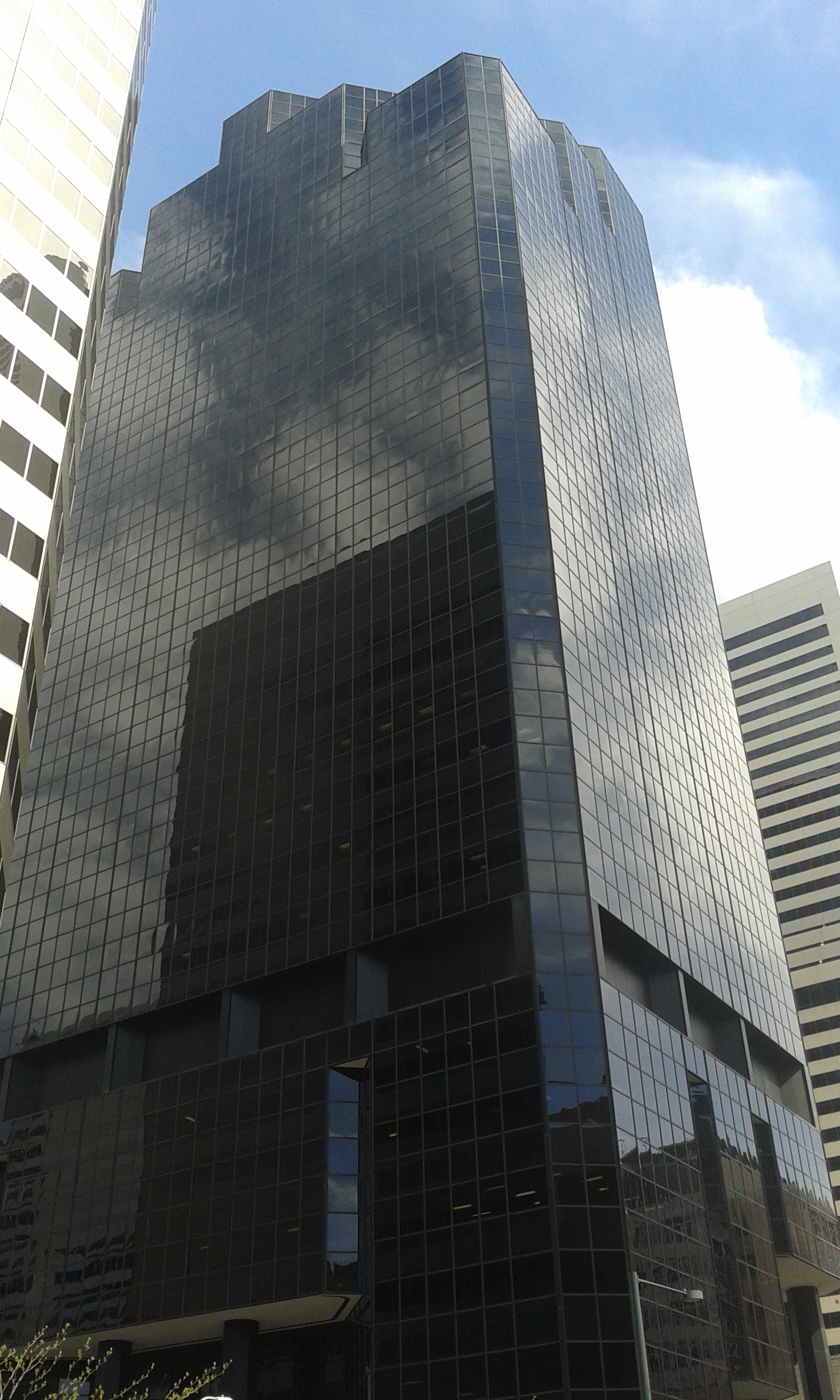 Granite Tower's southwest facade and south corner in April 2016, Denver, CO